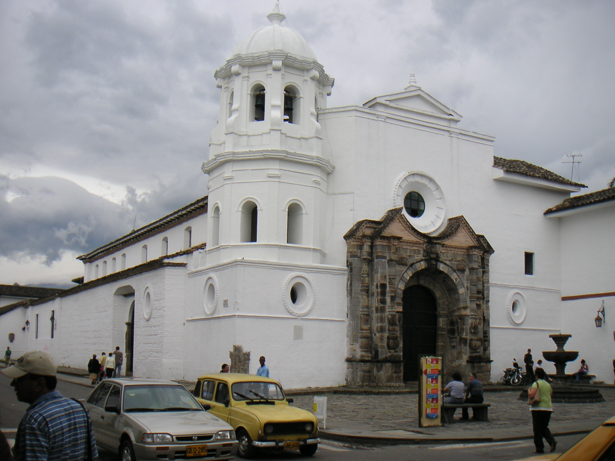 Description: Santo Domingo Church in Popayán, Colombia Source: Louise Wolff (darina), March 2005